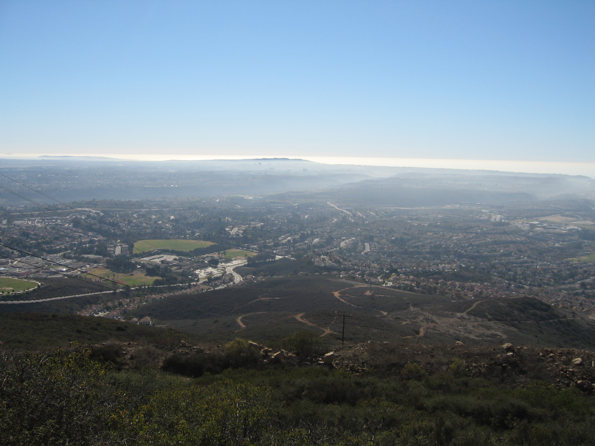 Picture I took from the top of Black Mountain for the article Black Mountain Open Space Park.